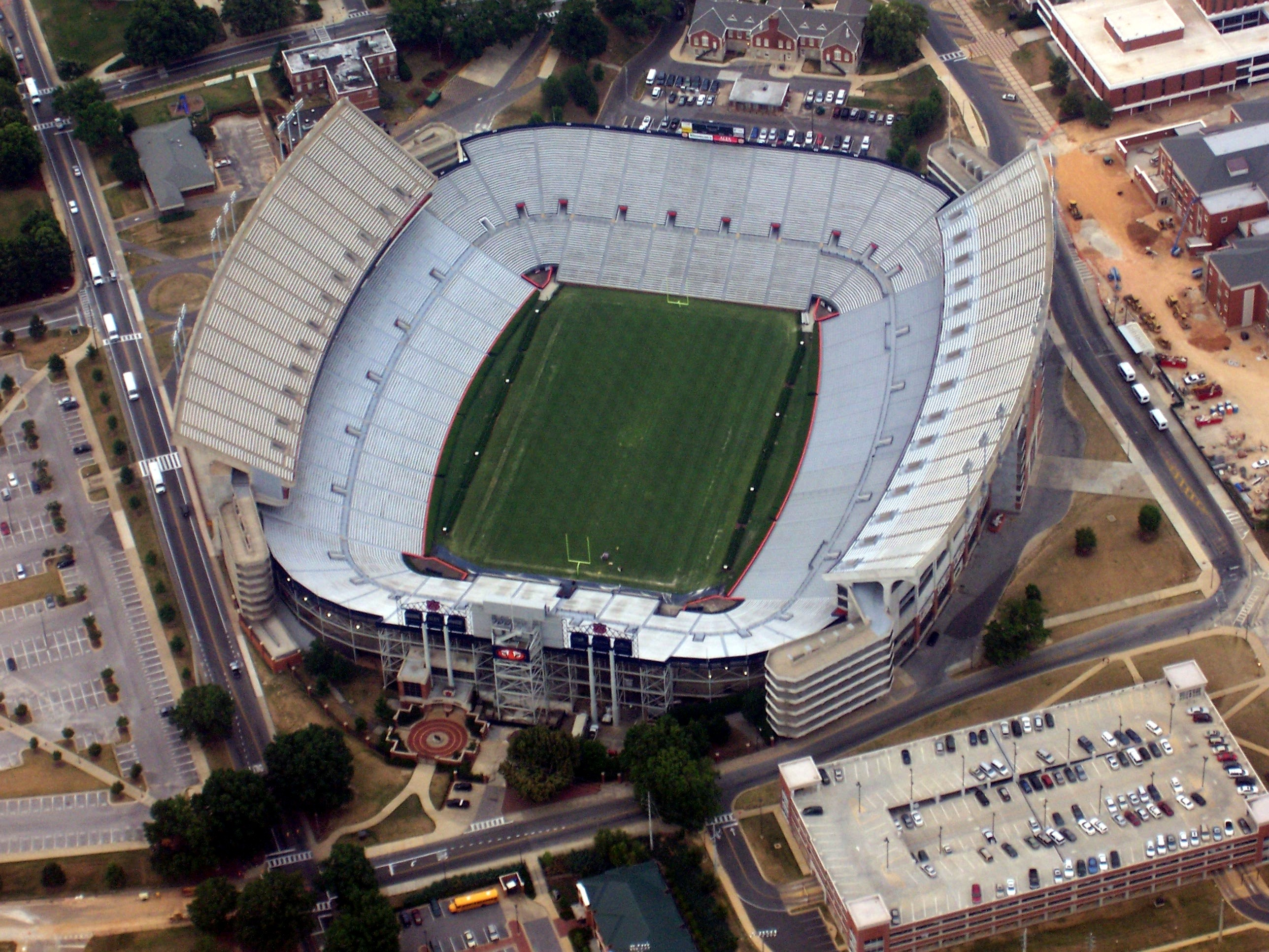 Jordan-Hare Stadium in Auburn, Alabama, on the campus of Auburn University. Image was taken from the south side of the stadium, from ~1900 feet above ground level.